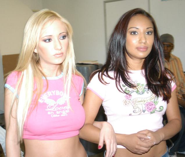 Hillary Scott, Jasmine Byrne on set Britney Rears 3 From X-Play/Hustler Video